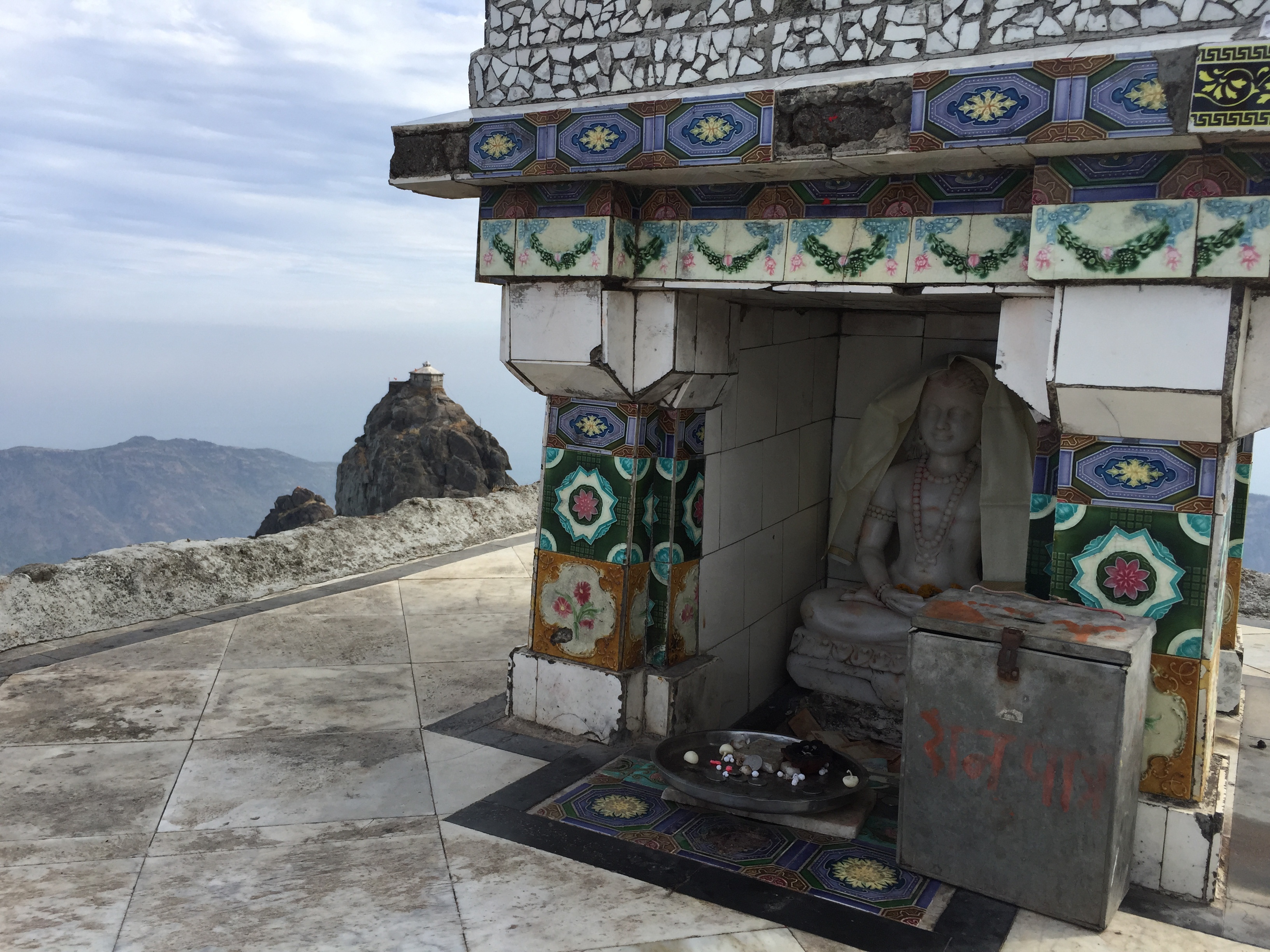 Gorakshanath temple of Girnar, and in background Dattatreya Temple